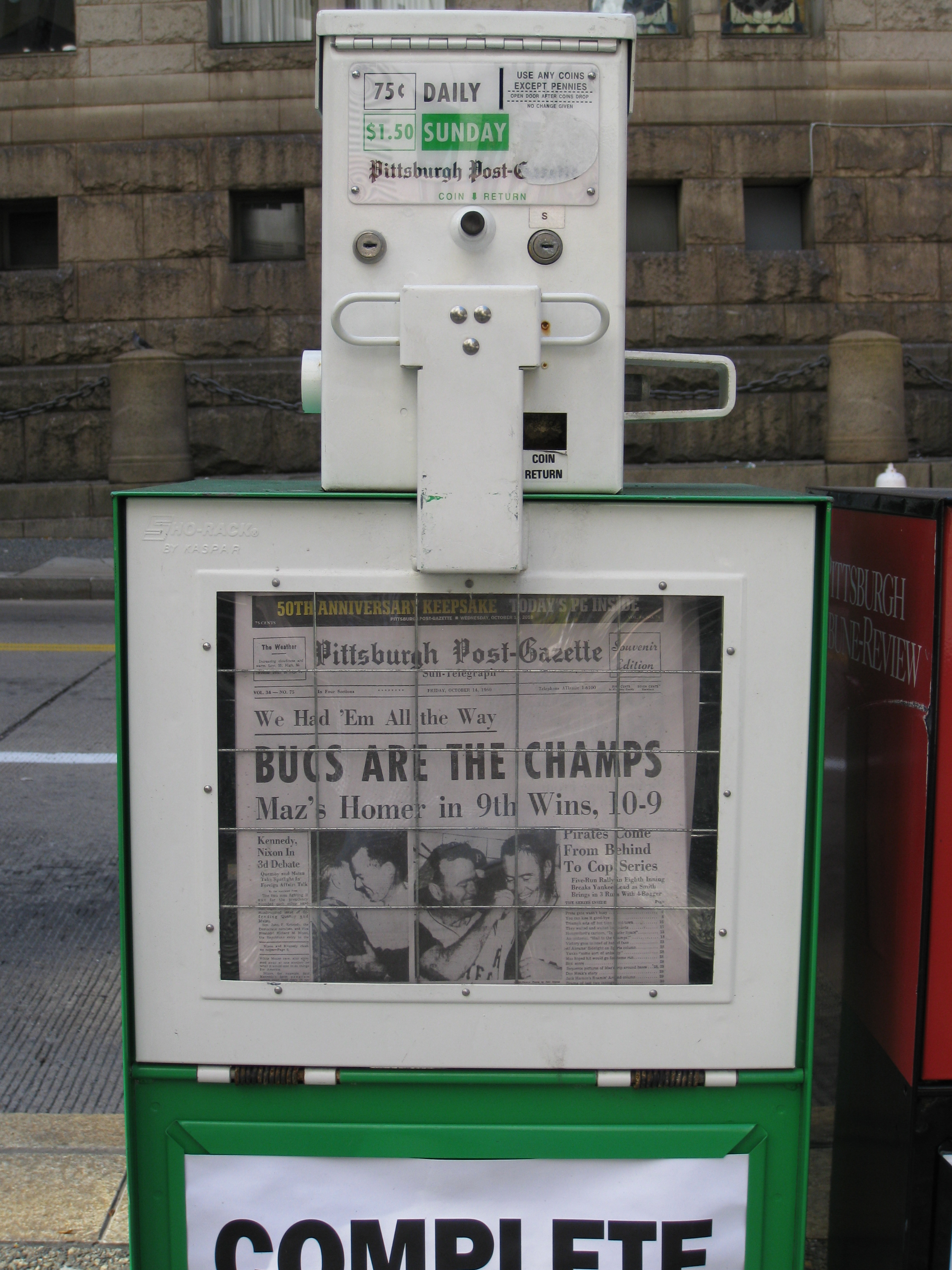 Pittsburgh Post-Gazette newspaper re-published October 13, 1960 story on October 13, 2010. That is 50th anniversary Maz hit winning home run in World Series against Yankees. Photo taken outside Allegheny County Courthouse